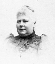 Augusta Lundin (1840-1919) was a Swedish fashion designer and fashion homeowner. She was also dressmaker.